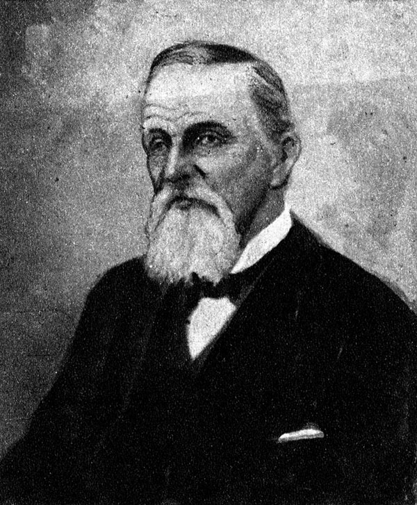 Portrait of John G. Nichols, Mayor of Los Angeles 1852-1853 and 1856-1859.